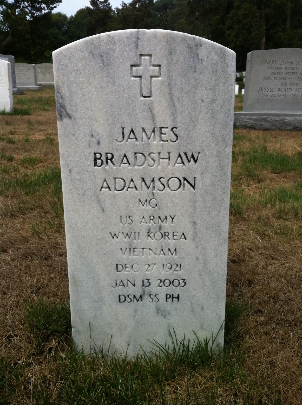 Grave of James Bradshaw Adamson at Arlington National Cemetery